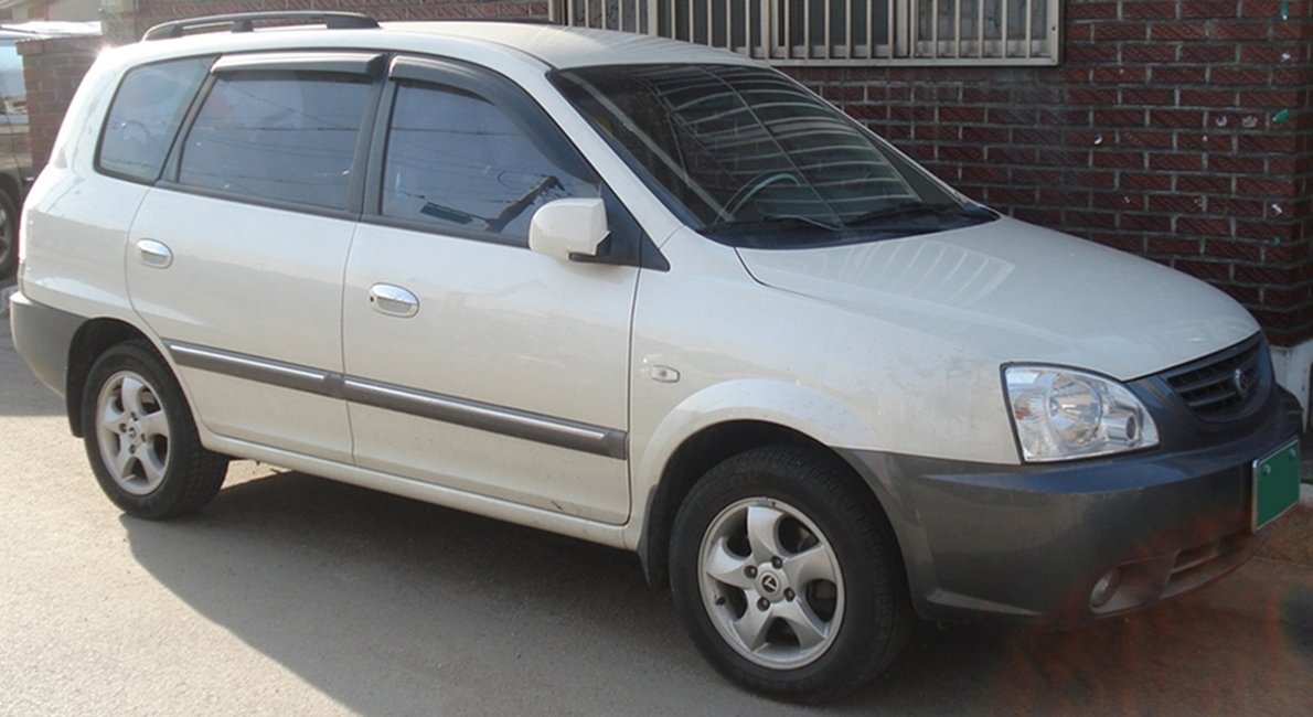 Kia X-Trek